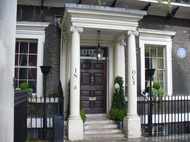 The Navy and Military Club Georgian house at the north-eastern corner of St James's Square. Once home to Lady Astor, the first woman MP.